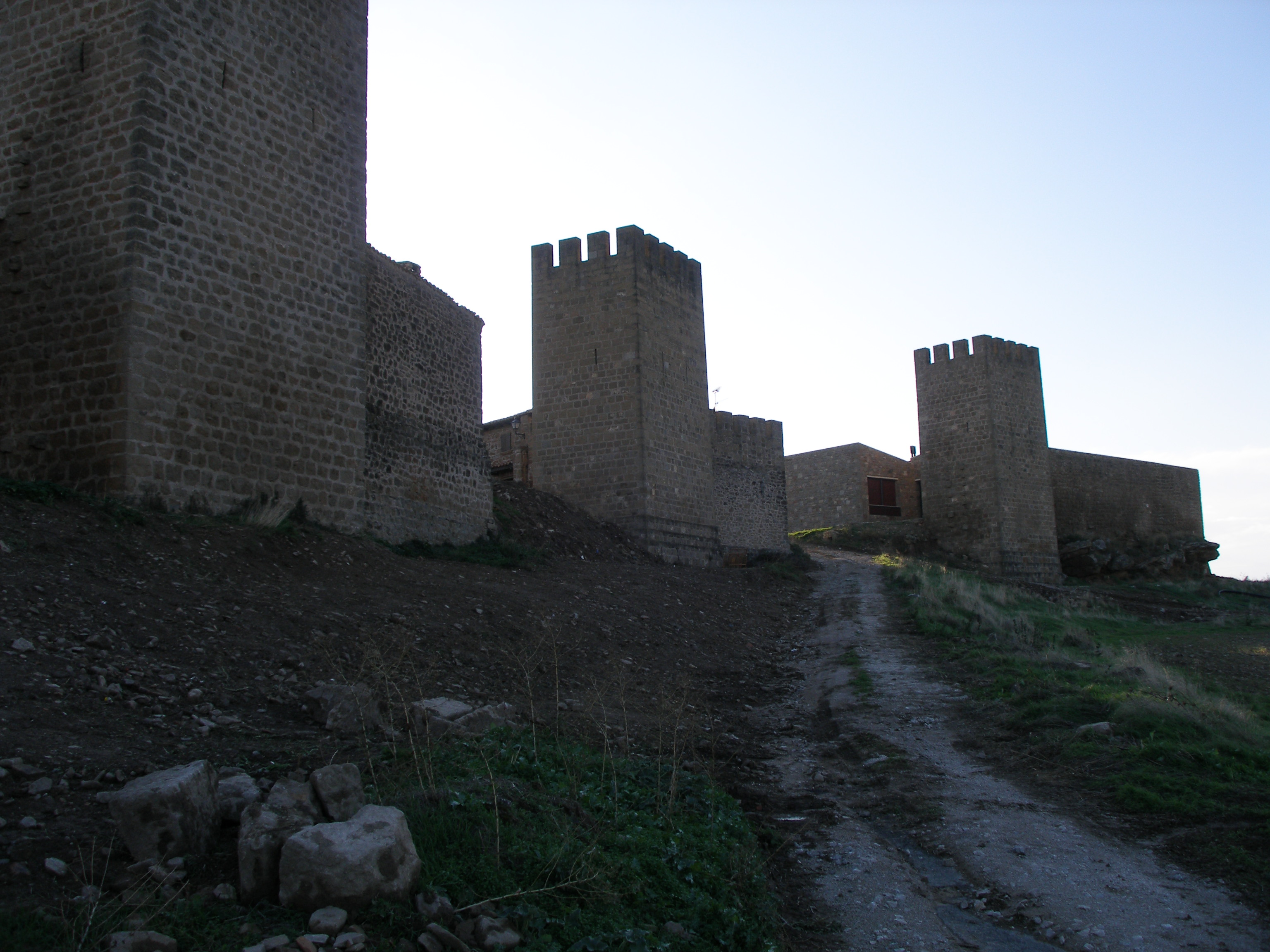 Fortified village of Artajona, Navarre (Spain).